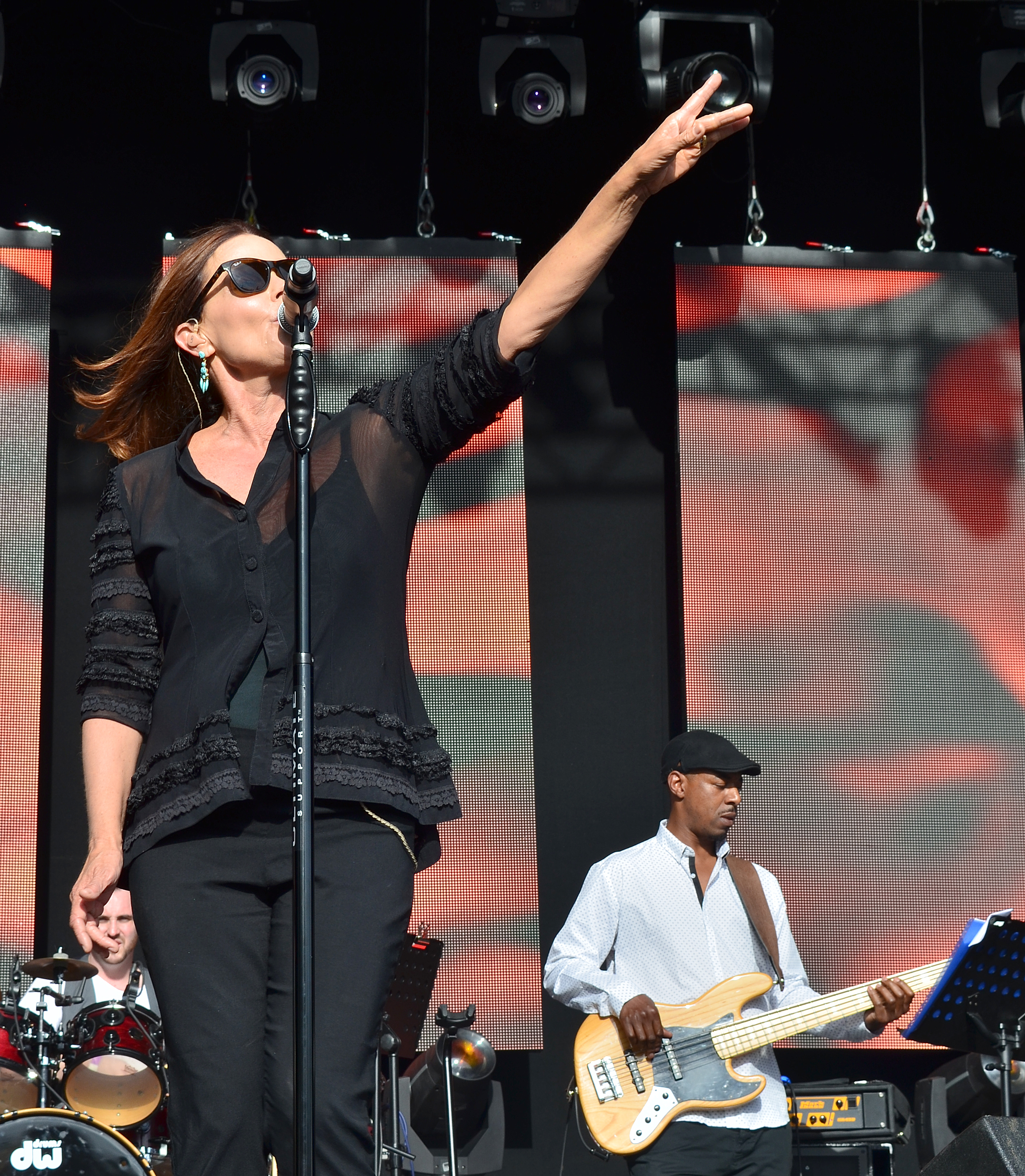 Let's Rock Bristol took place at The Ashton Court Estate, Bristol, 6-8 June 2014. It was attended by over 10,000 people. The festival included the following (mainly British) artists: Then Jerico, Brother Beyond, Bananarama, Tony Hadley, Belinda Carlisle, Alexander O'Neil, Go West, Boney M, Midge Ure, Heaven 17, The Christians, China Crisis, Doctor and The Medics, Sonia, Jaki Graham, Carol Decker of T'Pau, Level 42, Rick Astley, Kim Wilde, ABC, Nik Kershaw, Matt Bianco, Imagination, The Blow Monkeys, Toyah and Johnny Hates Jazz.